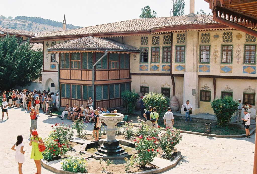 Courtyard, living quarters and the fountain at Hansaray Palace in Bakhchisaray, Crimea.